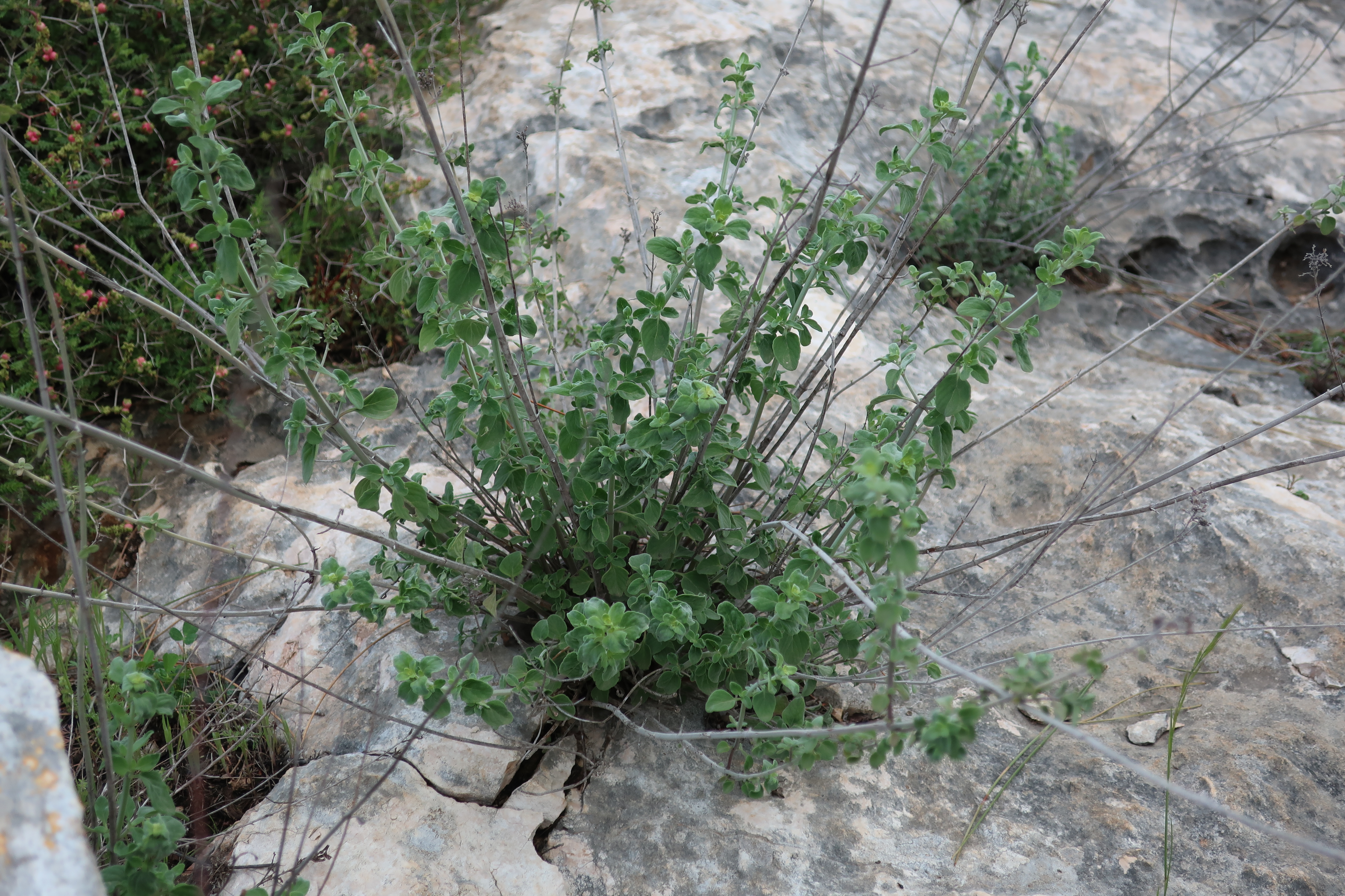 Thyme-leaved savory (Micromeria fruticosa), syn. Clinopodium serpyllifolium subsp. fruticosum